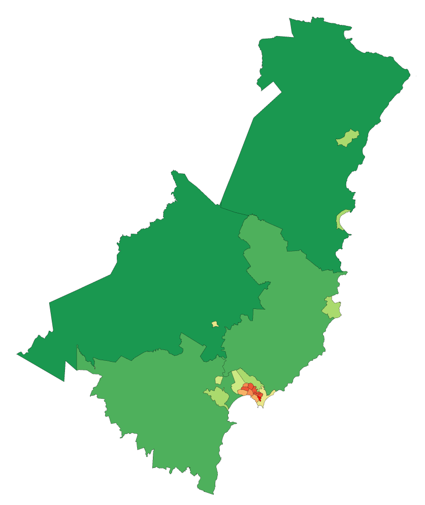 Map showing population density of a region of New Zealand (by Statistics NZ Area Unit) as of the 2006 census